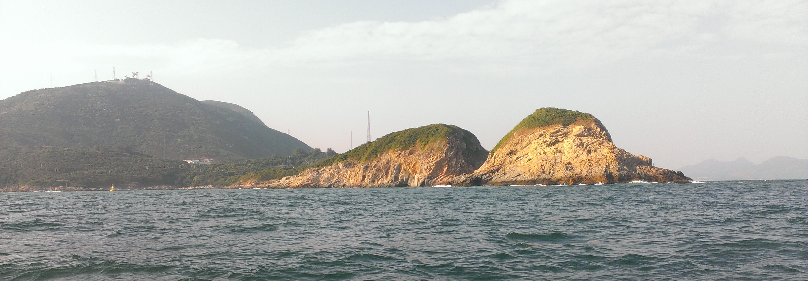 Southwesten view of kau pei chau, Cape D'Aguilar is to the left of the islet.